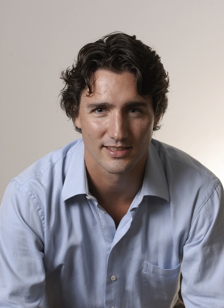 Justin Trudeau promotional photo taken by Jean-Marc Carisse